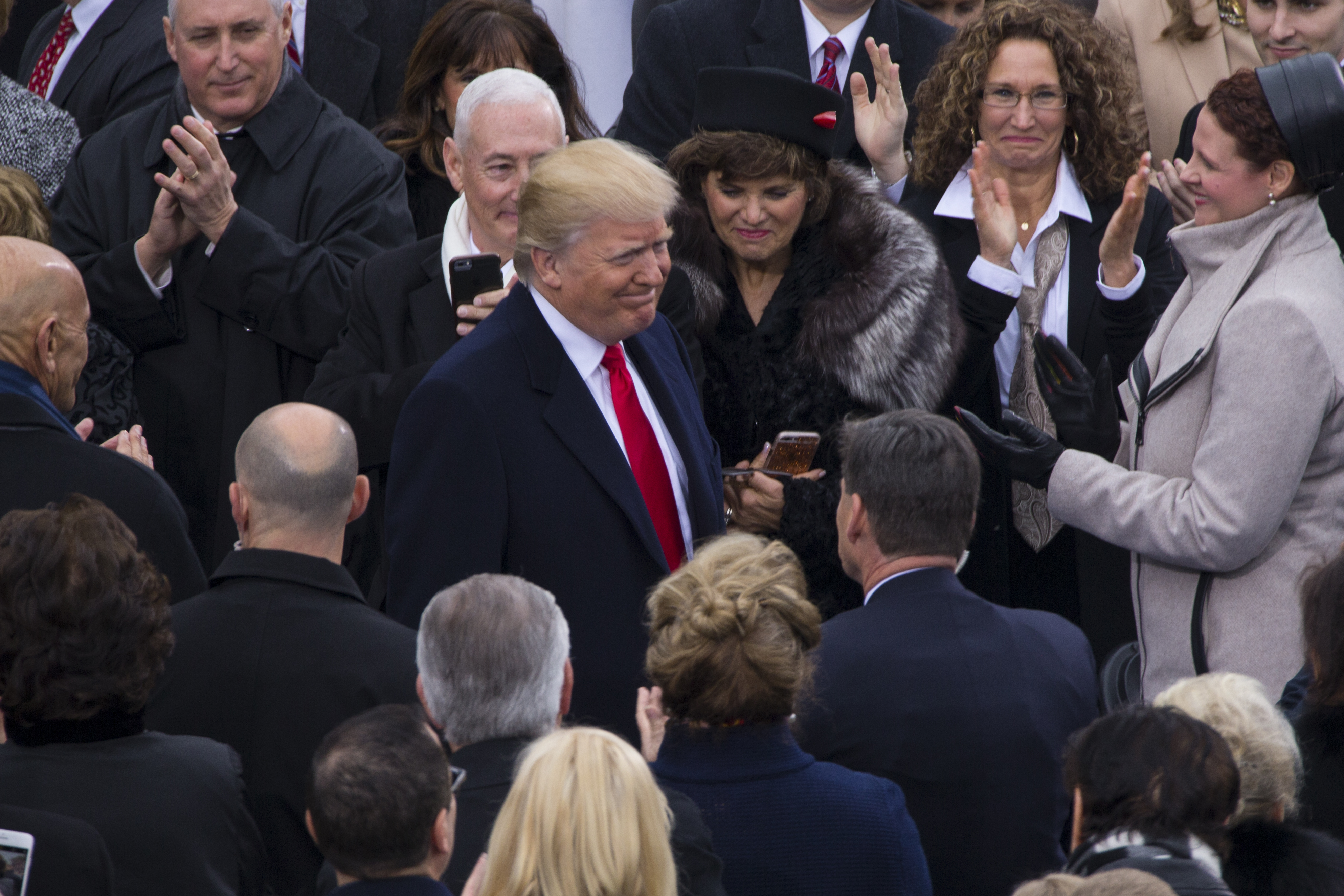 President Donald J. Trump walks through a crowd during the 58th Presidential Inauguration at the U.S. Capitol Building, Washington, D.C., Jan. 20, 2017. More than 5,000 military members from across all branches of the armed forces of the United States, including Reserve and National Guard components, provided ceremonial support and Defense Support of Civil Authorities during the inaugural period. (DoD photo by U.S. Marine Corps Lance Cpl. Cristian L. Ricardo) Behind President Trump is Vice President Mike Pence's brother, Greg Pence Unit: Joint Task Force - National Capital Region 58th Presidential Inauguration DVIDS Tags: POTUS; JTF-NCR; Inauguration2017; Donald J. Trump